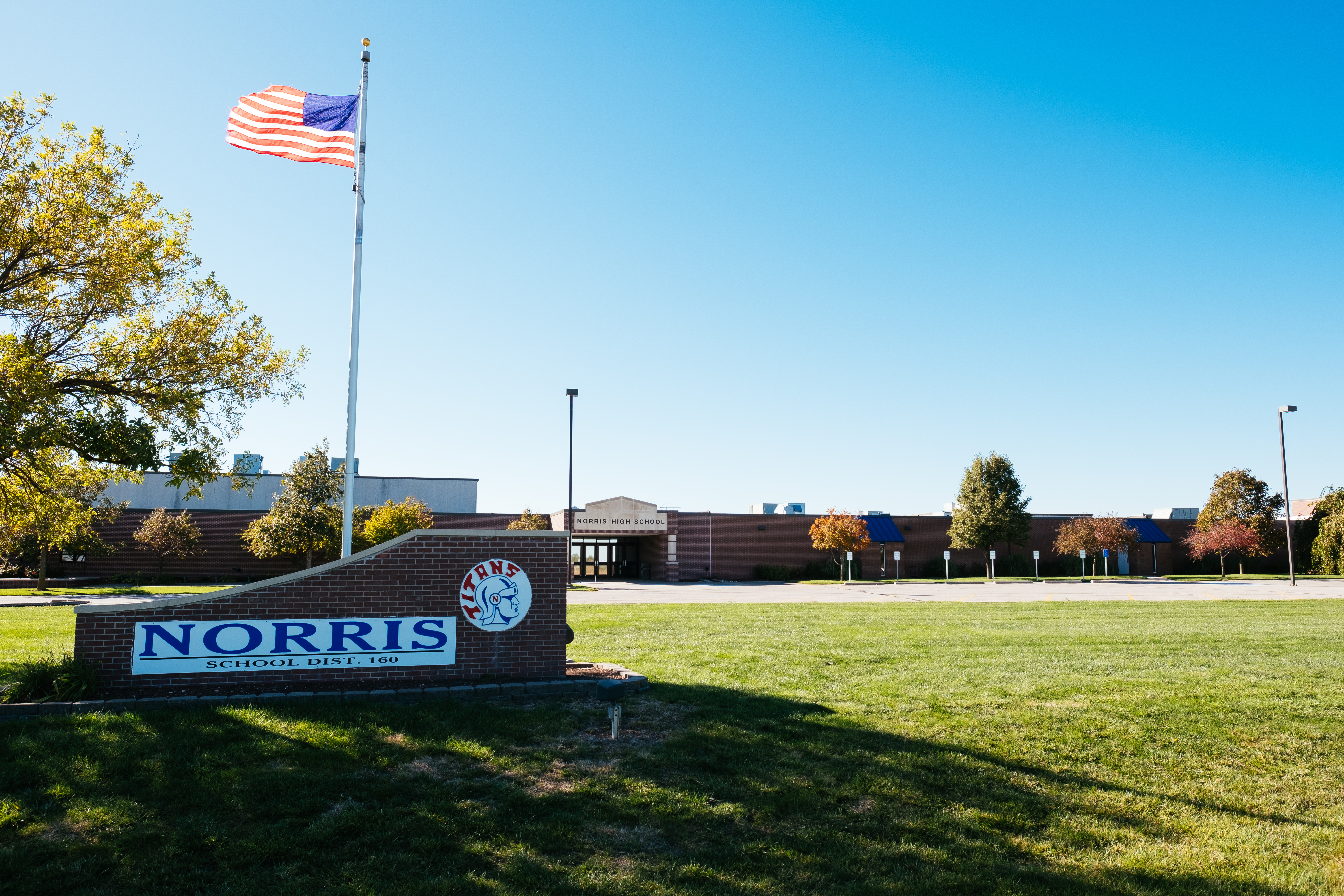 Front of Norris High School.